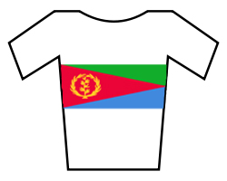 Flag taken from the Eritrea wikipedia page